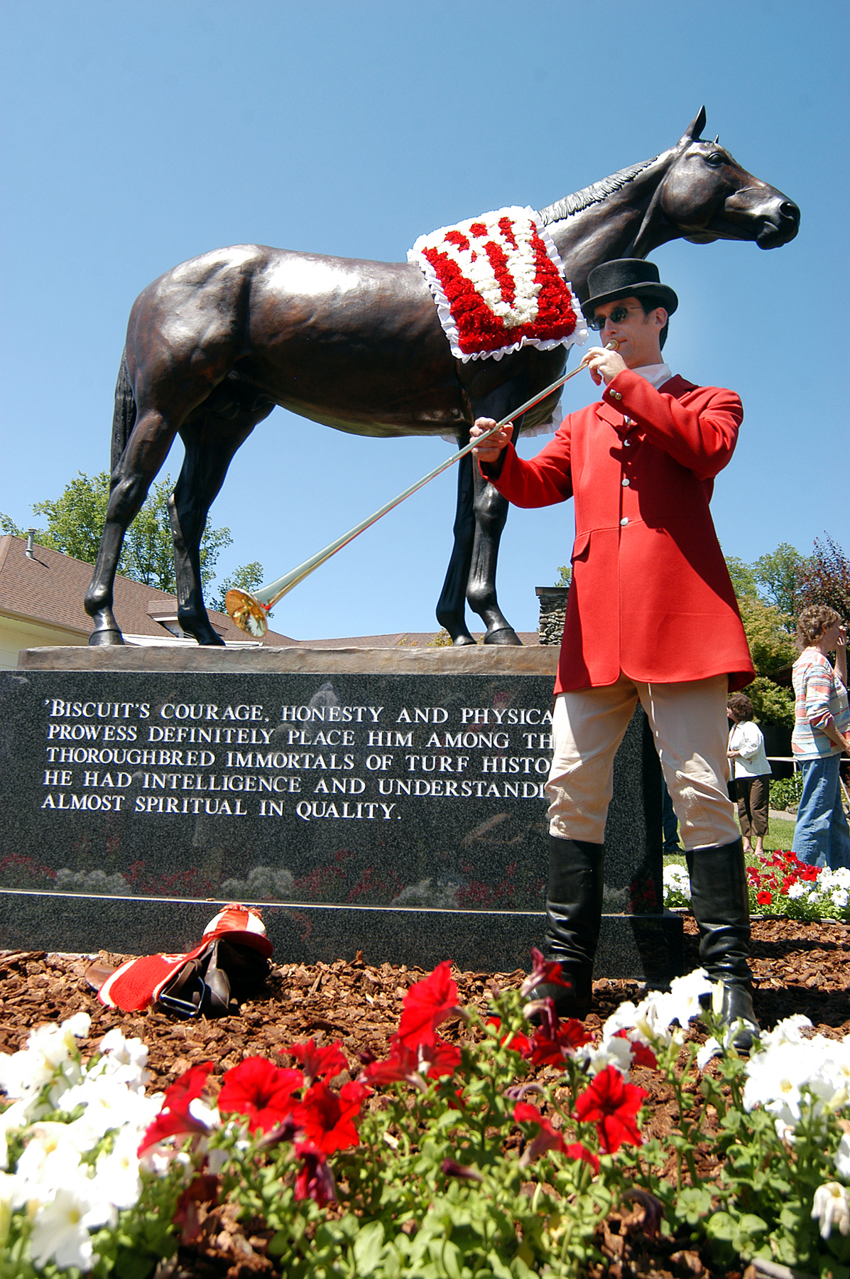 Seabiscuit Heritage Foundation statute